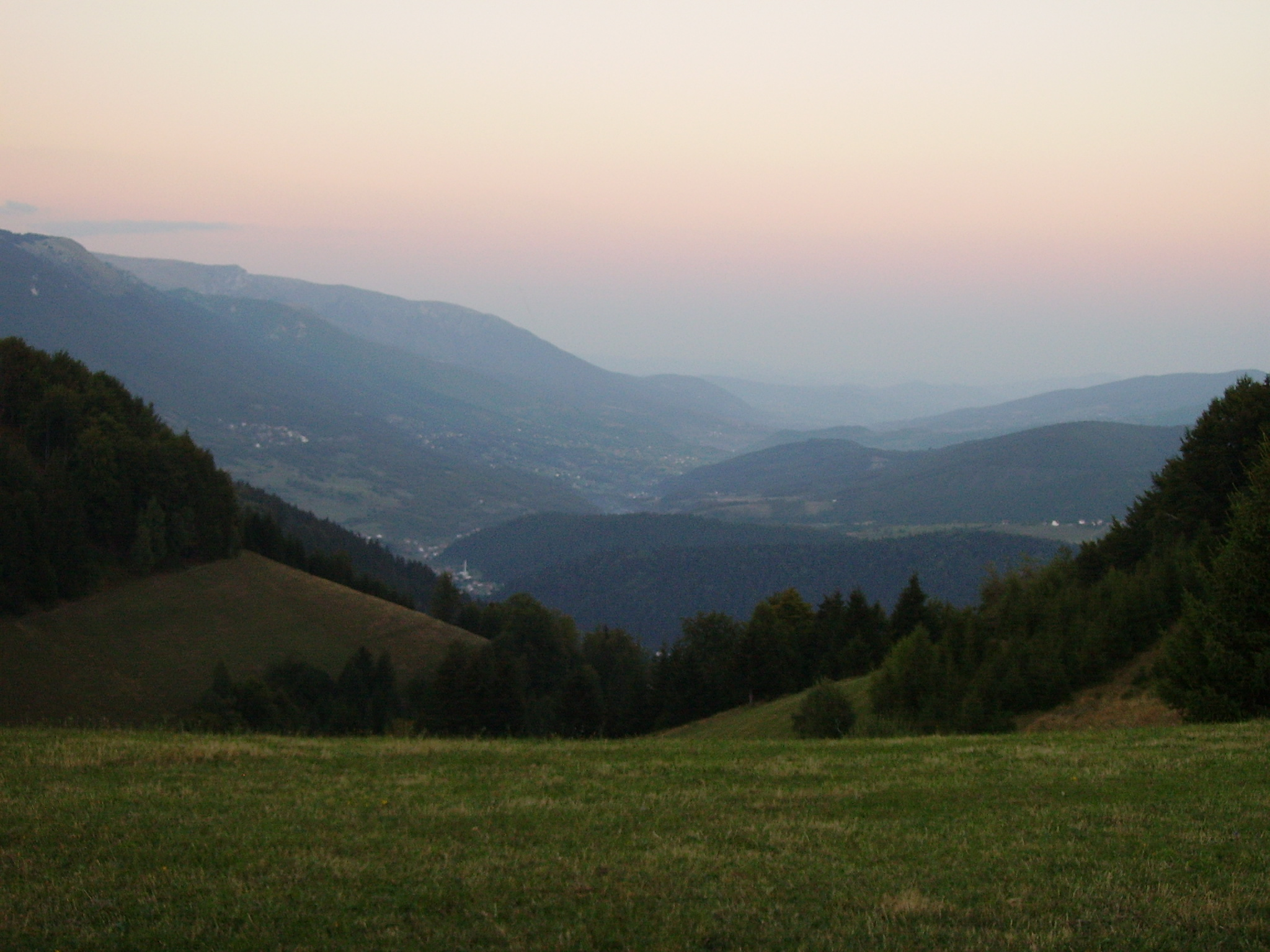 View from Karaula Pass to the East into Lašva Valley (Bosnia and Herzegovina).